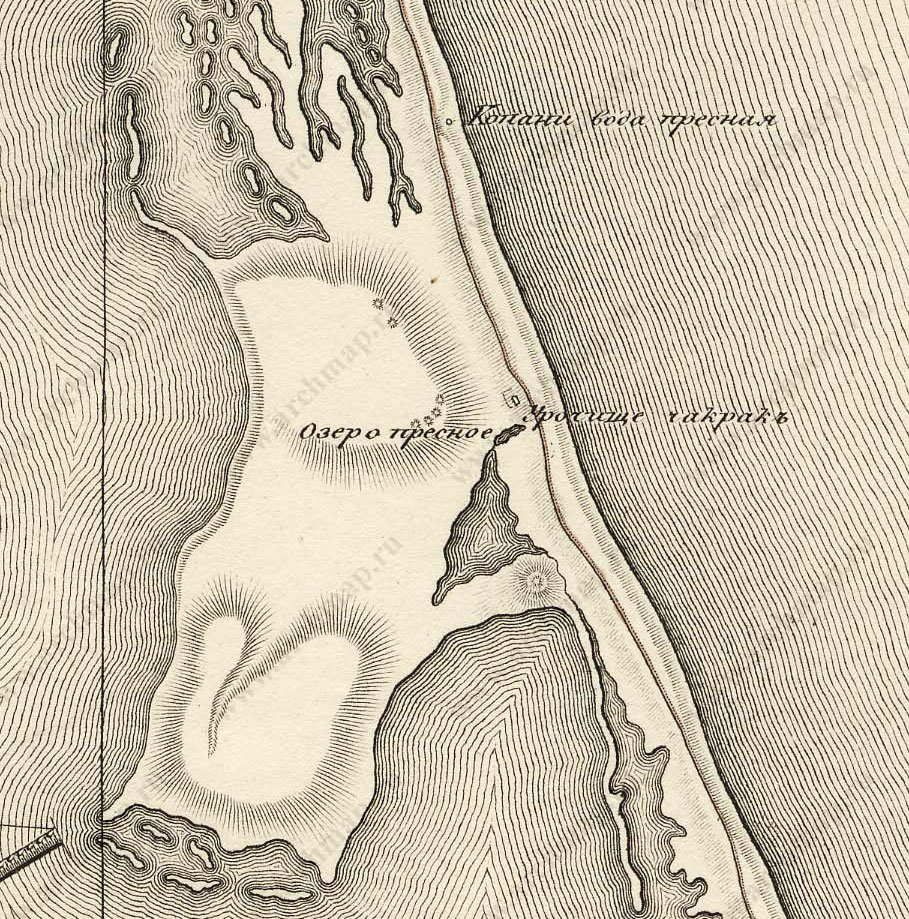 Çoqraq tract (nowadays Strilkove, Henichesk Raion, Kherson Oblast, Ukraine) on Mukhin's Map, 1817